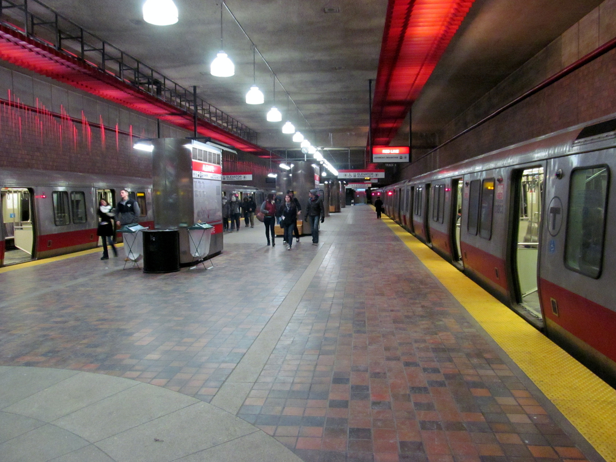 Two Red Line trains wait at the platform at Alewife